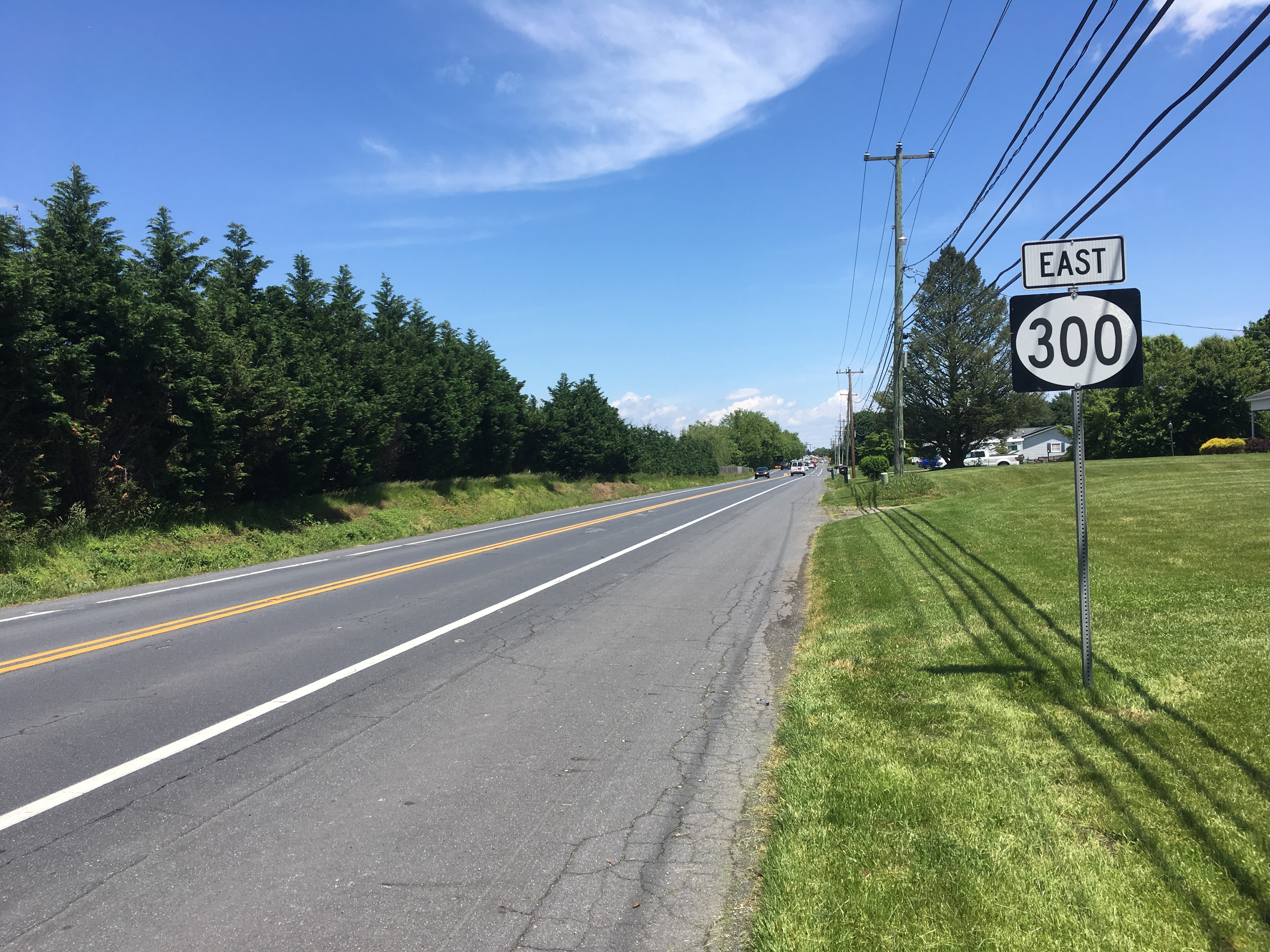 Eastbound Delaware Route 300 (Wheatleys Pond Road) past the intersection with Underwoods Corner Road in Clayton, Delaware